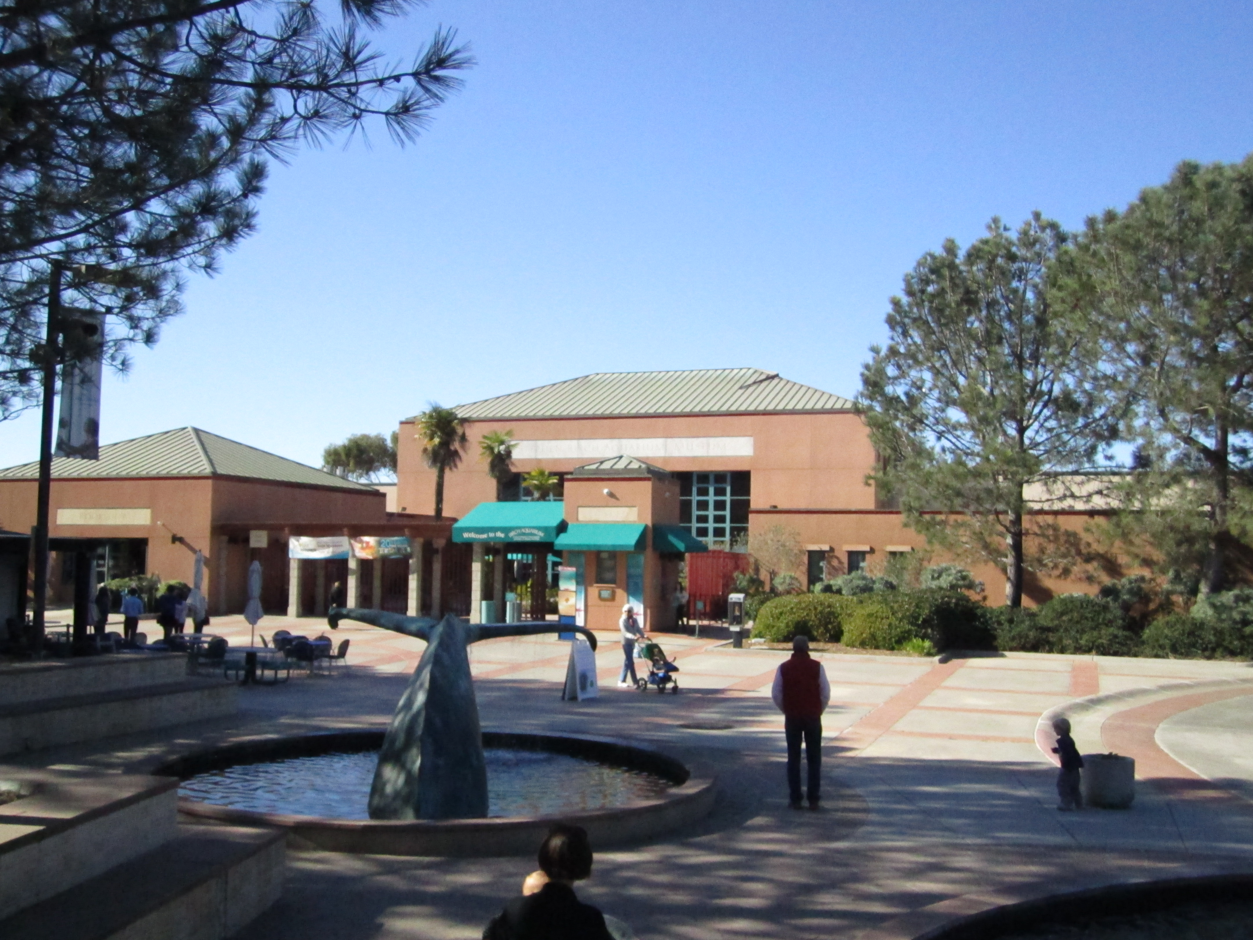 The Birch Aquarium entry plaza